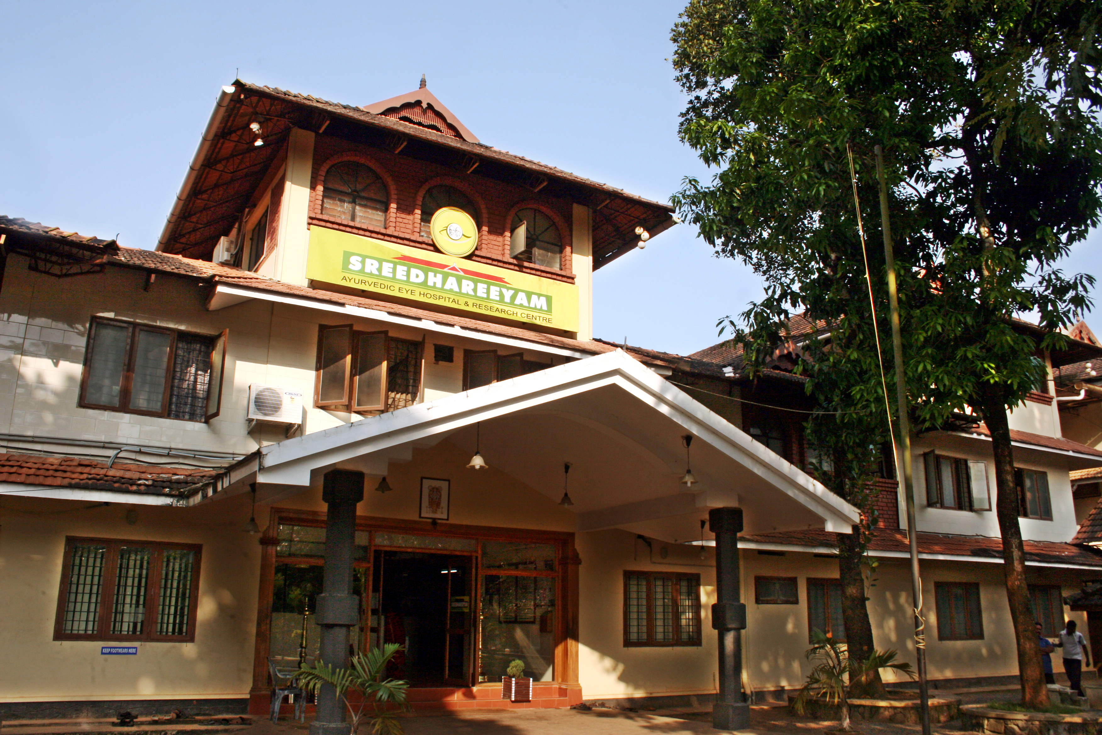 This is a photograph of the Sreedhareeyam Ayurvedic Eye Hospital and Research Center at Koothattukulam, Kochi, Kerala, India. [1]